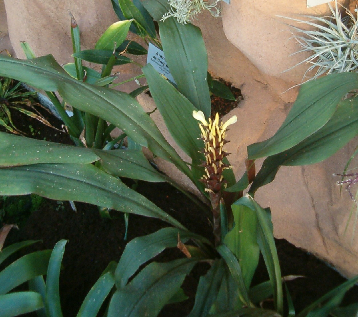 At Botanical Gardens Berlin-Dahlem Species Pitcairnia atrorubens